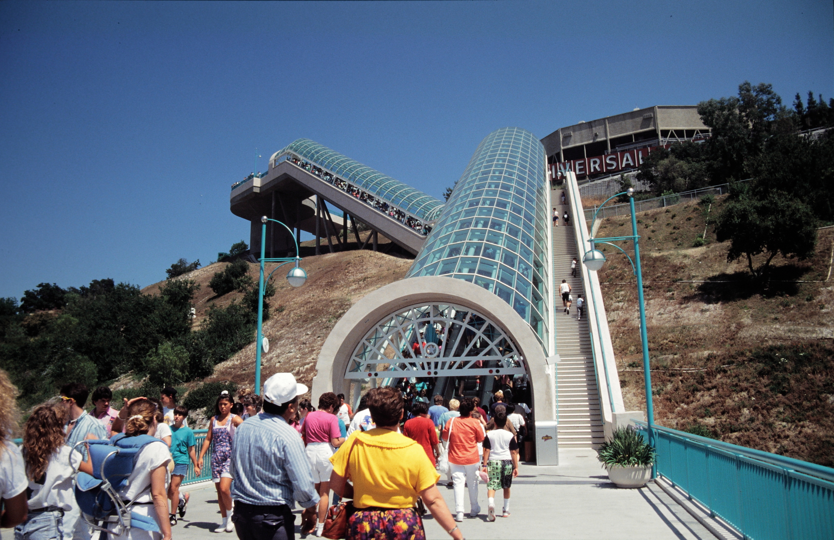 Main Escalators at the Universal Studios Hollywood theme park.